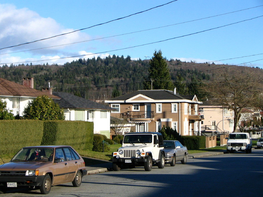 This image was taken by me, Flying Penguin of Pacific Spirit Photography in Burnaby, British Columbia, Canada.